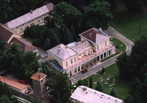 Nagykovácsi, Hungary, aerialphotography This is a photo of a monument in Hungary. Identifier: 7153